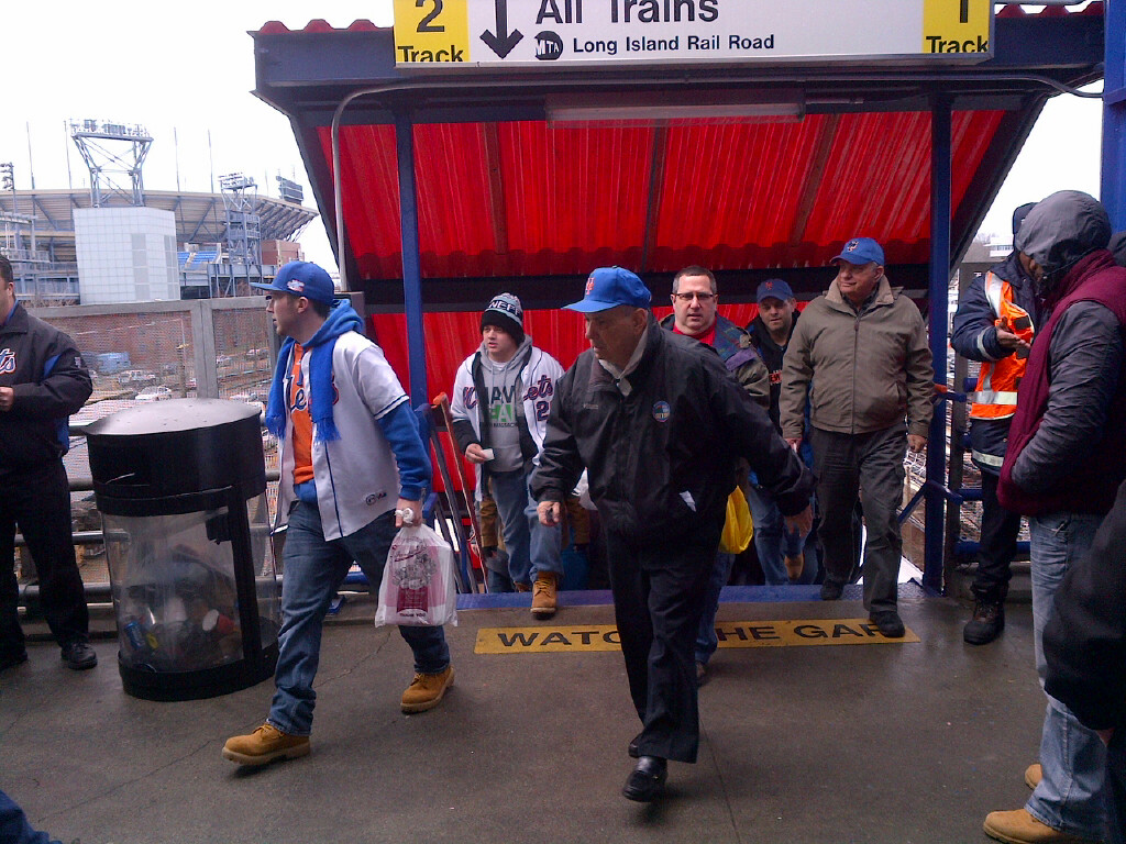 Baseball fans alight from the LIRR at Mets-Willets Point on March 31, 2014, and head to Citi Field for the Mets' 2014 home opener against the Washington Nationals. Photo: MTA Long Island Rail Road